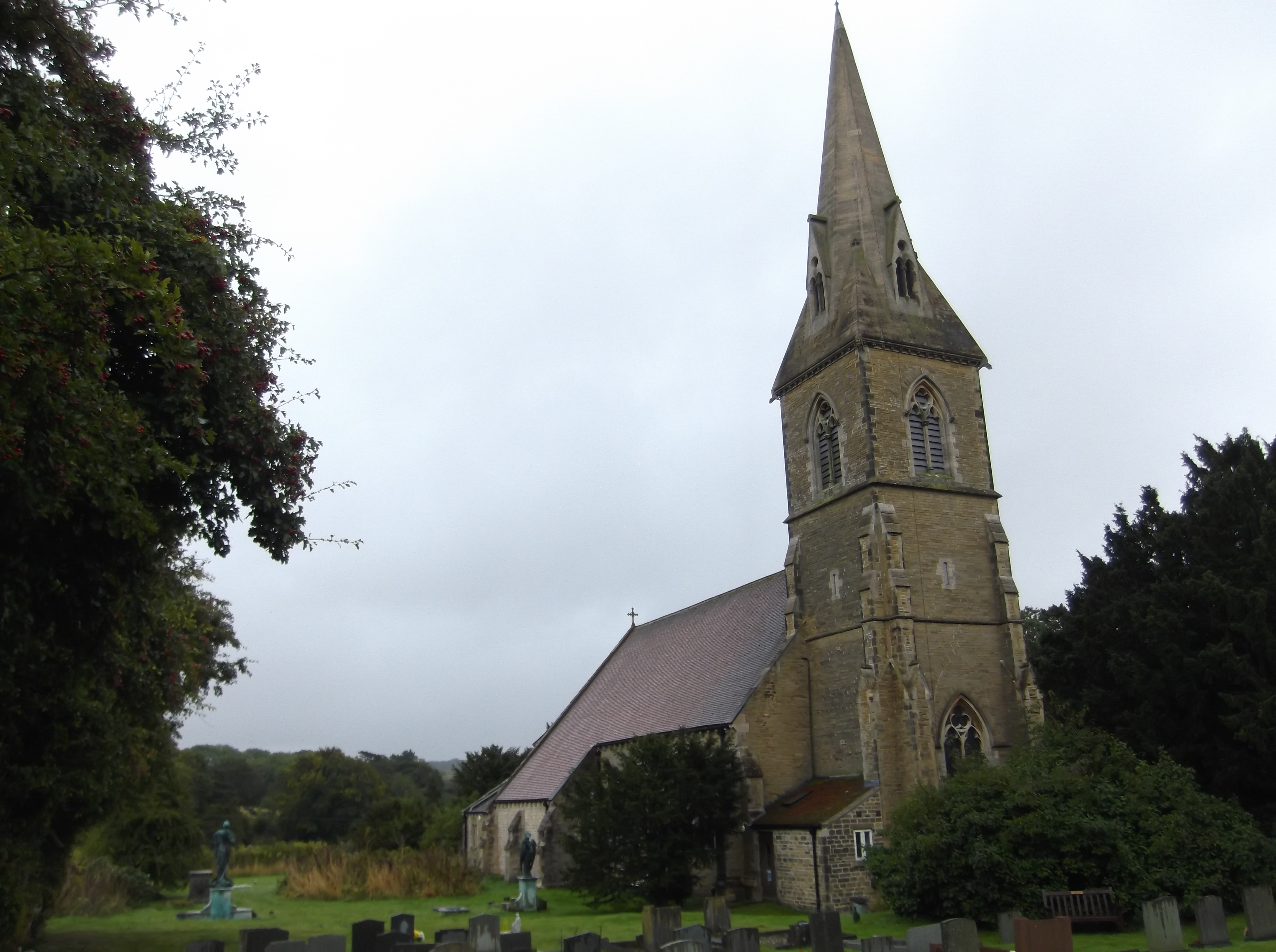 St James' parish church, Warter, East Riding of Yorkshire, England, seen from the west